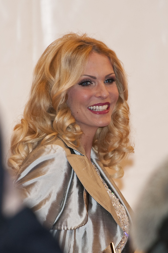 German TV host Sonya Kraus arriving at the Cinema For Peace gala 2010.